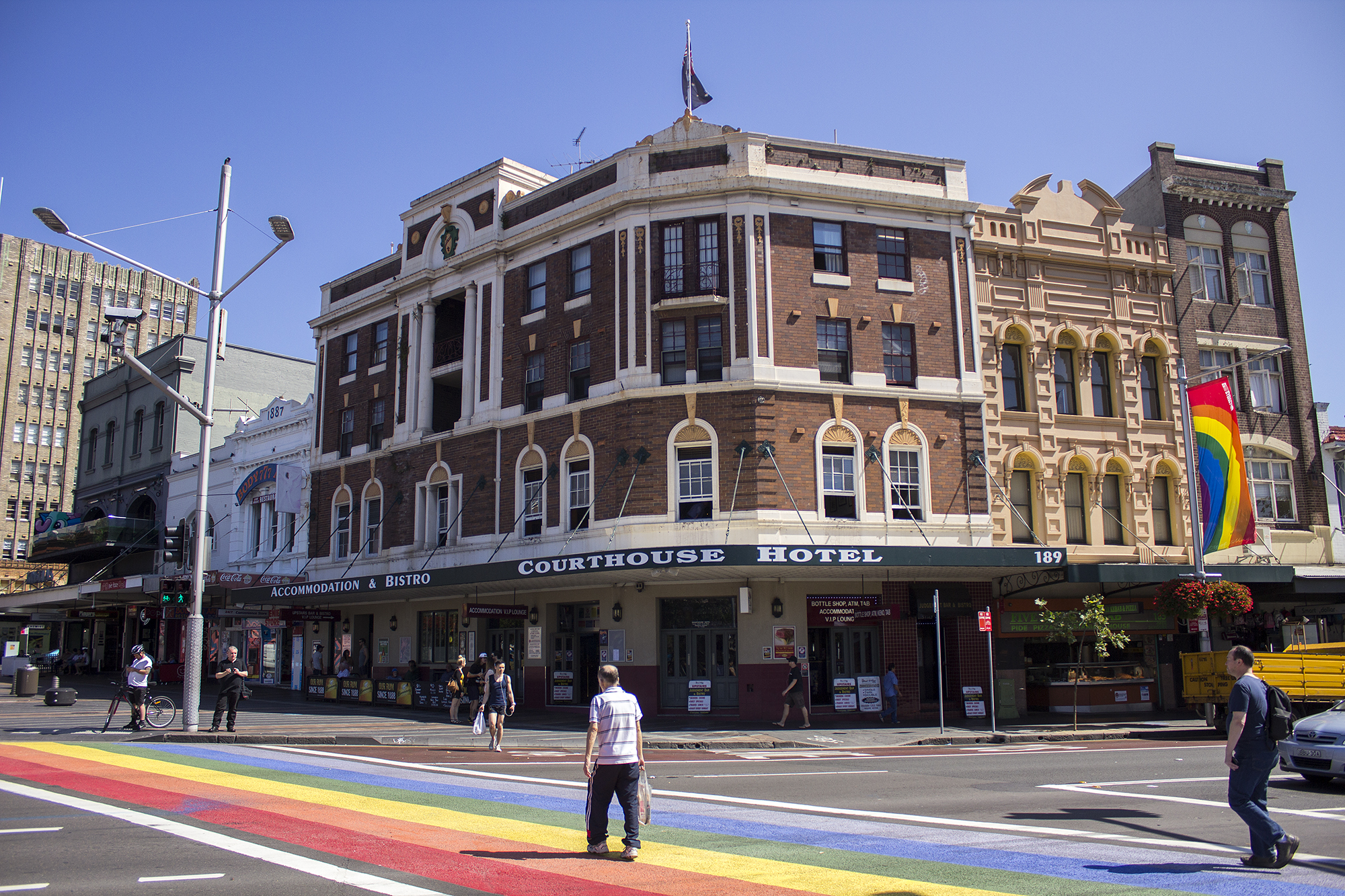 Court House Hotel and the Rainbow Crossing on Oxford Street in Darlinghurst.